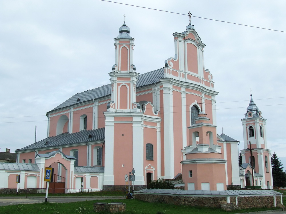 Catholic church of St. Peter and St. Paul and the Monastery of Basilian (Baruny, Belarus). This is a photo of Belarusian heritage monument. Reference number: 412Г000062 ( WLM)